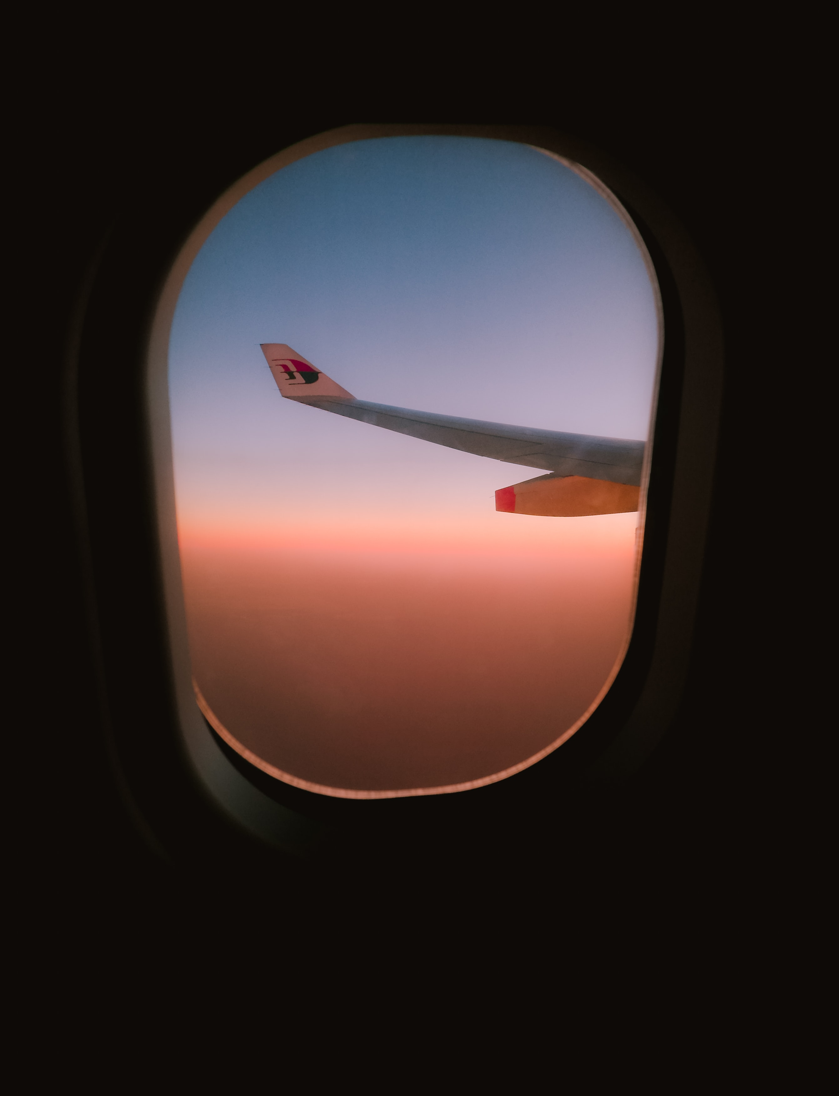 Capture from in Malaysia Airline's airple